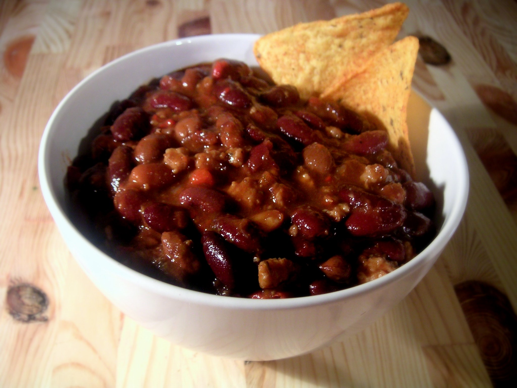 Bowl of Chili con Carne, made of ground pork, cubed beef, beans, tomatoes and hot peppers. Decorated with two Tortilla chips.